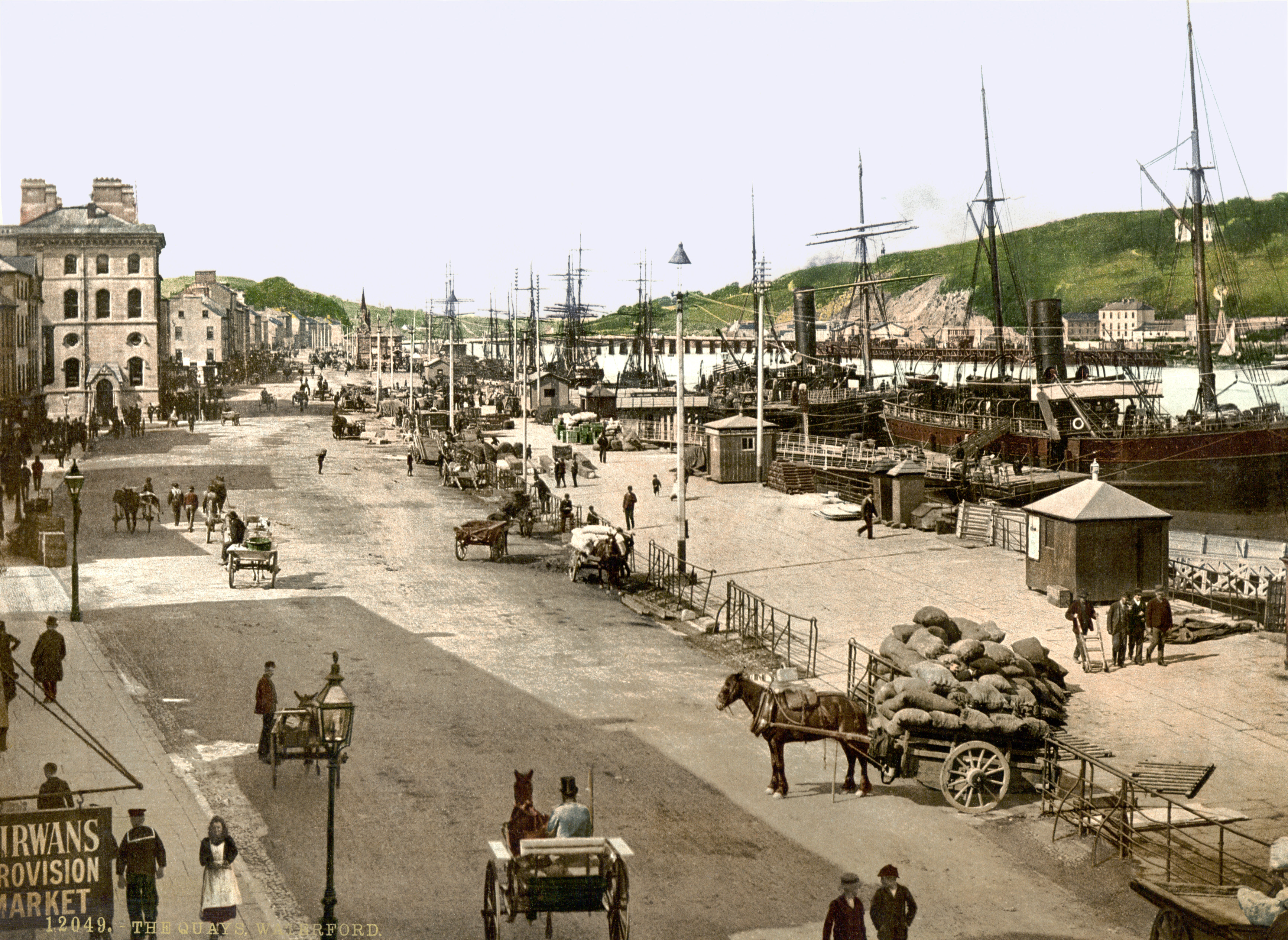 Quays Waterford, Ireland between ca. 1890 and ca. 1900.